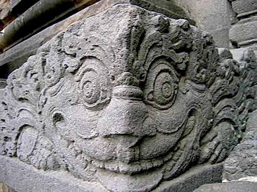 Relief at Prambanan temple compound.prambanan